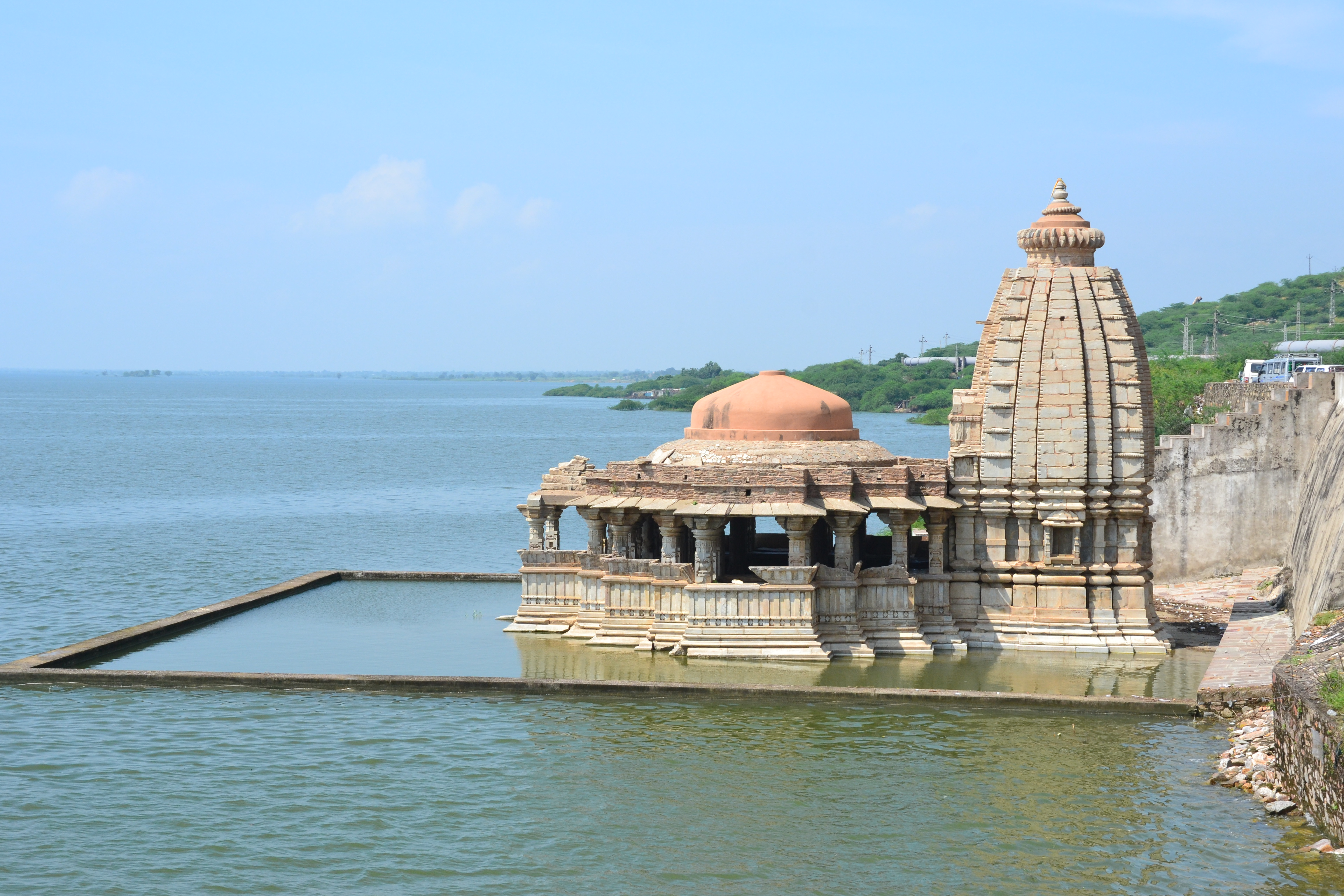 this temple is submerged in water after heavy rains . temple is located at bisalpur dam bisaldeo ji temple at bisalpur ,tonk rajaassthan